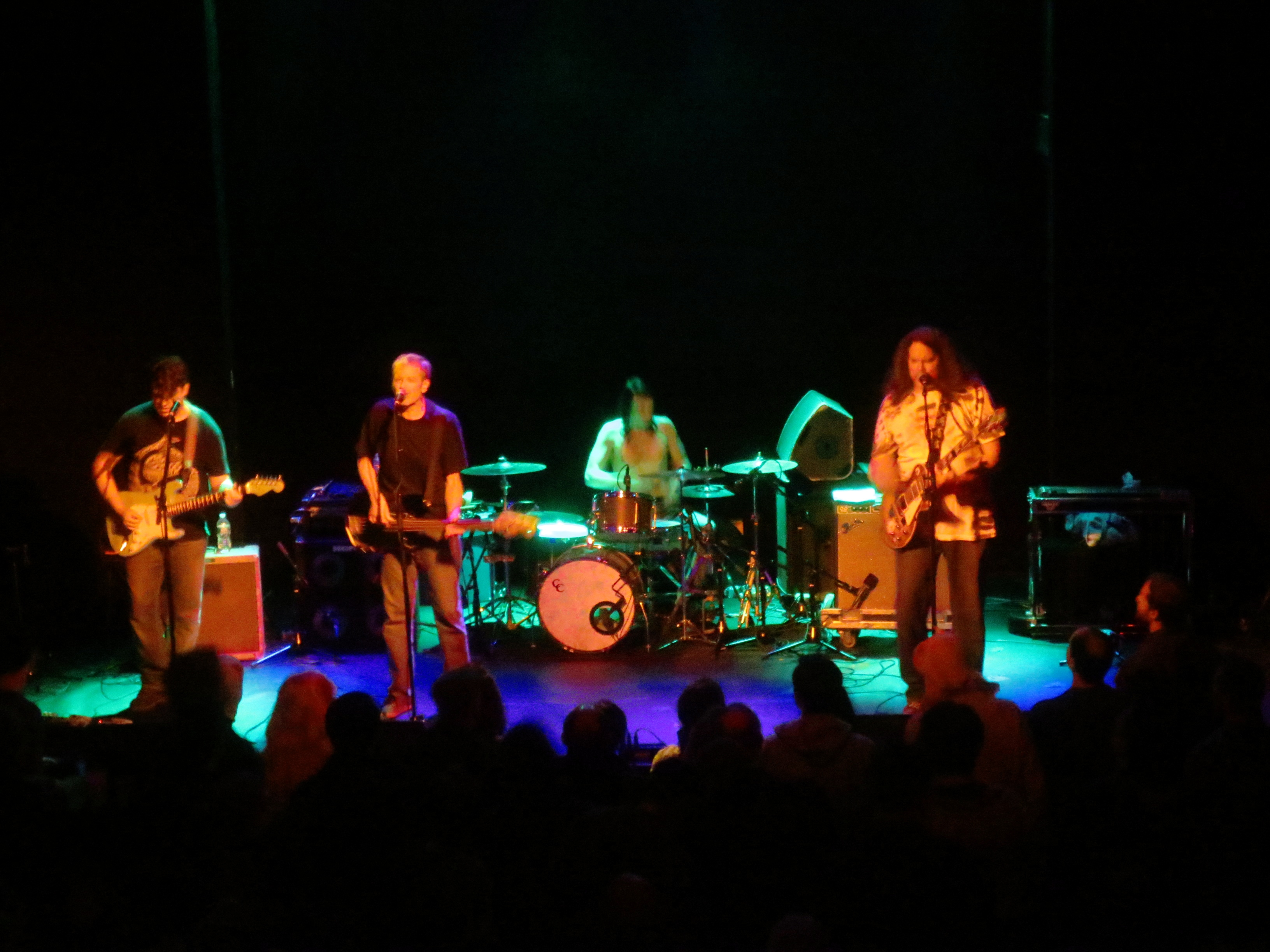 Meat Puppets performing at Rough Trade, Brooklyn in 2014